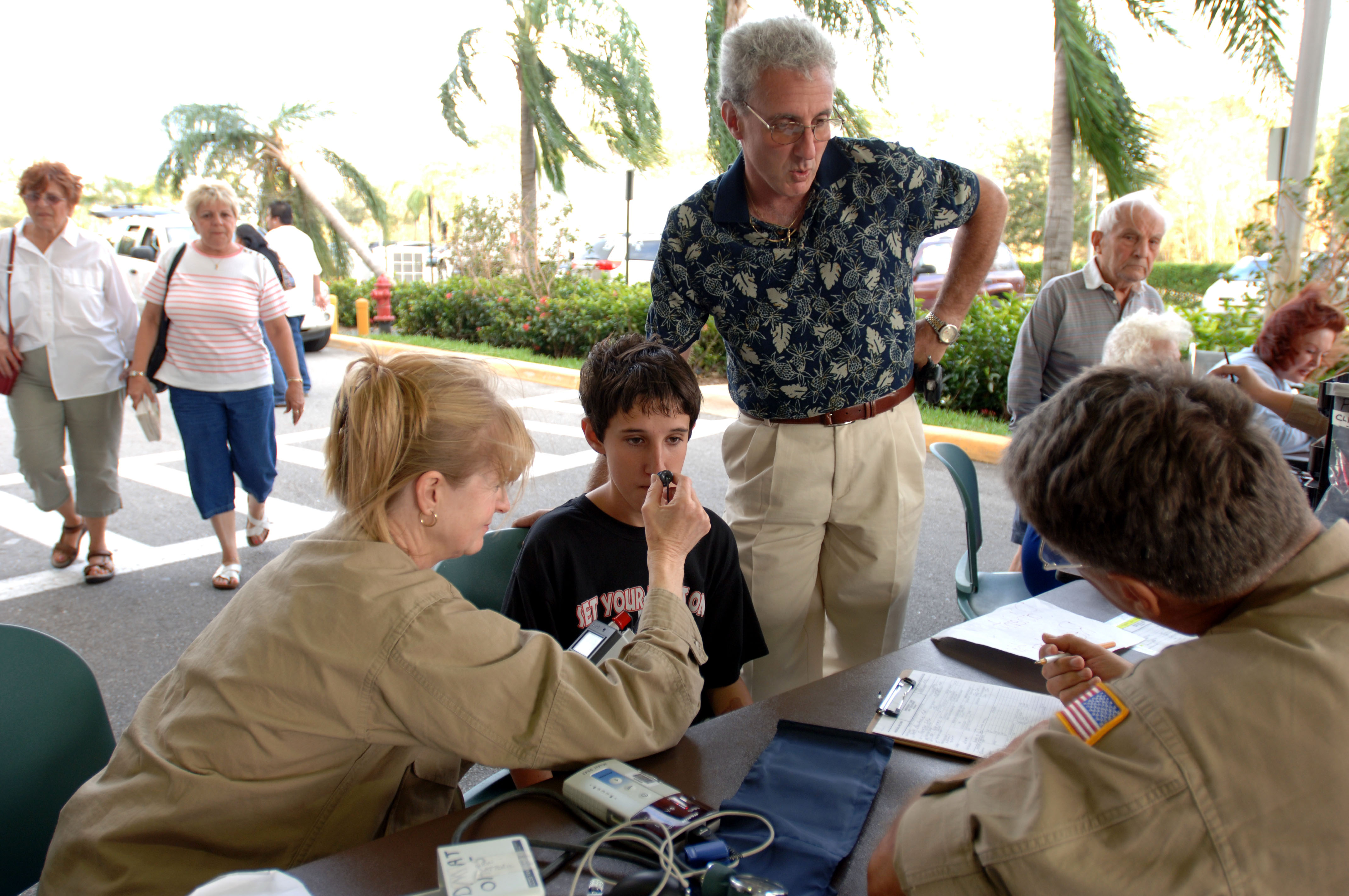 Boynton Beach, FL, October 29, 2005 -- FEMA Disaster Medical Assistance Team nurse Shirley Swilley, TN-1, left, checks the temperature of Paul Neshe, while his father Michael Neshe stands by outside of the JFK Medical Center. The DMAT is set up in the entry way of the hospital to assist in seeing the increase flow of patients due to Hurricane Wilma. Jocelyn Augustino/FEMA